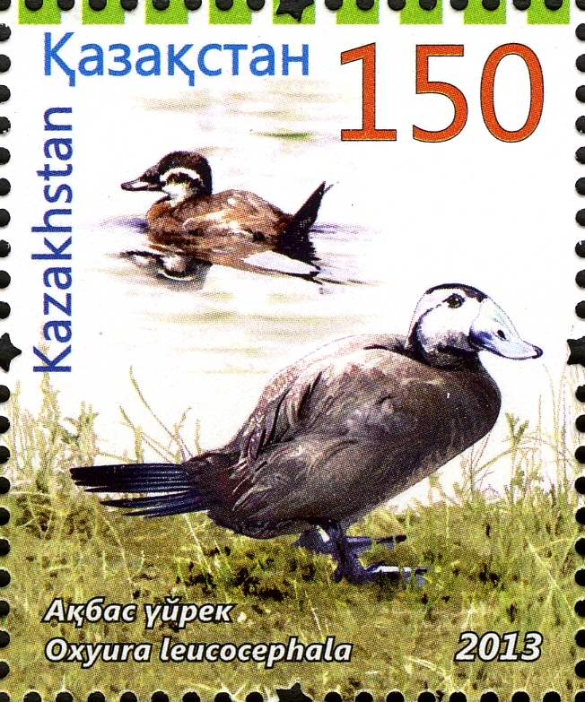 Stamps of Kazakhstan, 2013